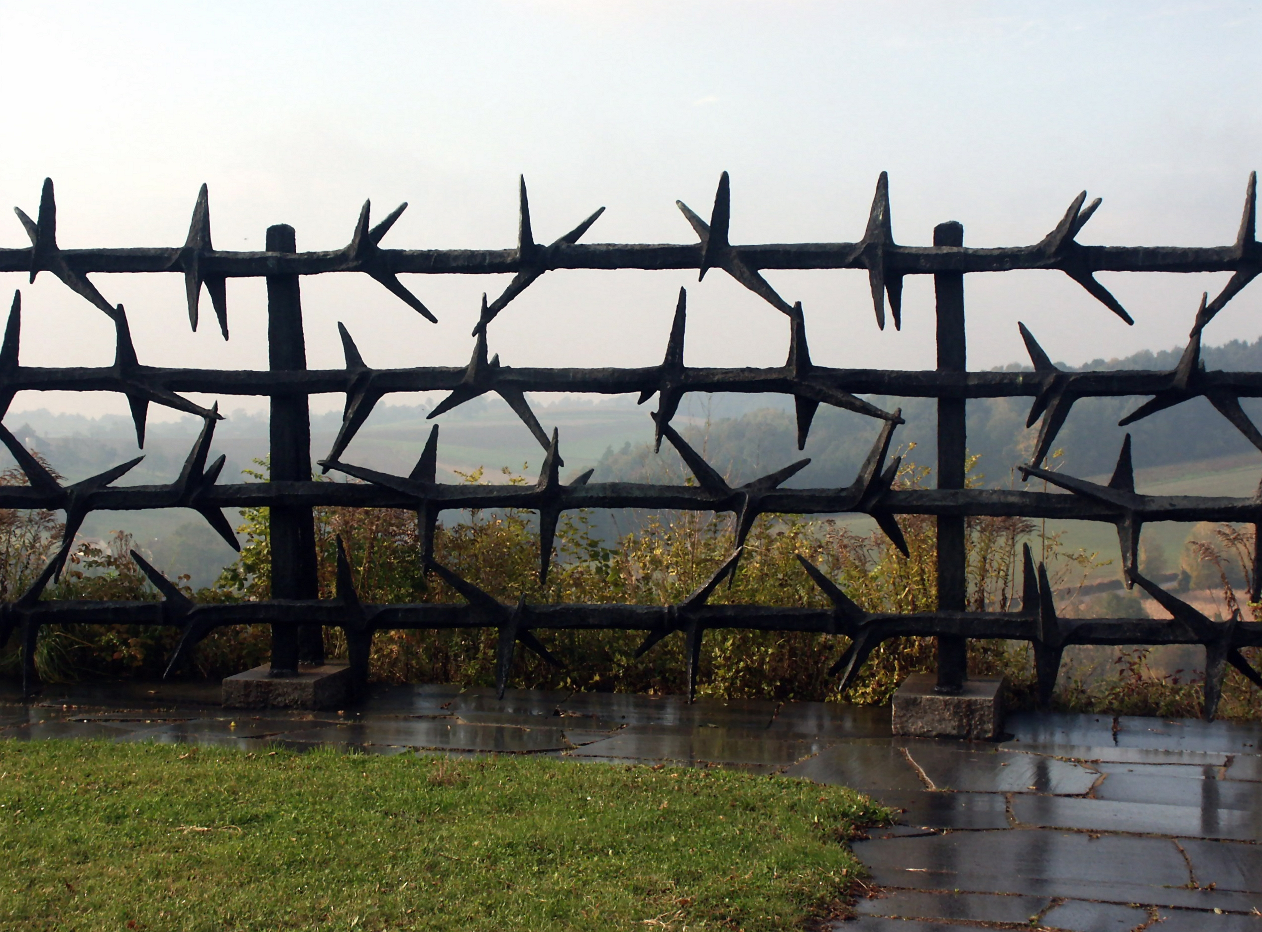 Barbed wire memorial, KZ Mauthausen memorial, Mauthausen, Upper Austria, Austria